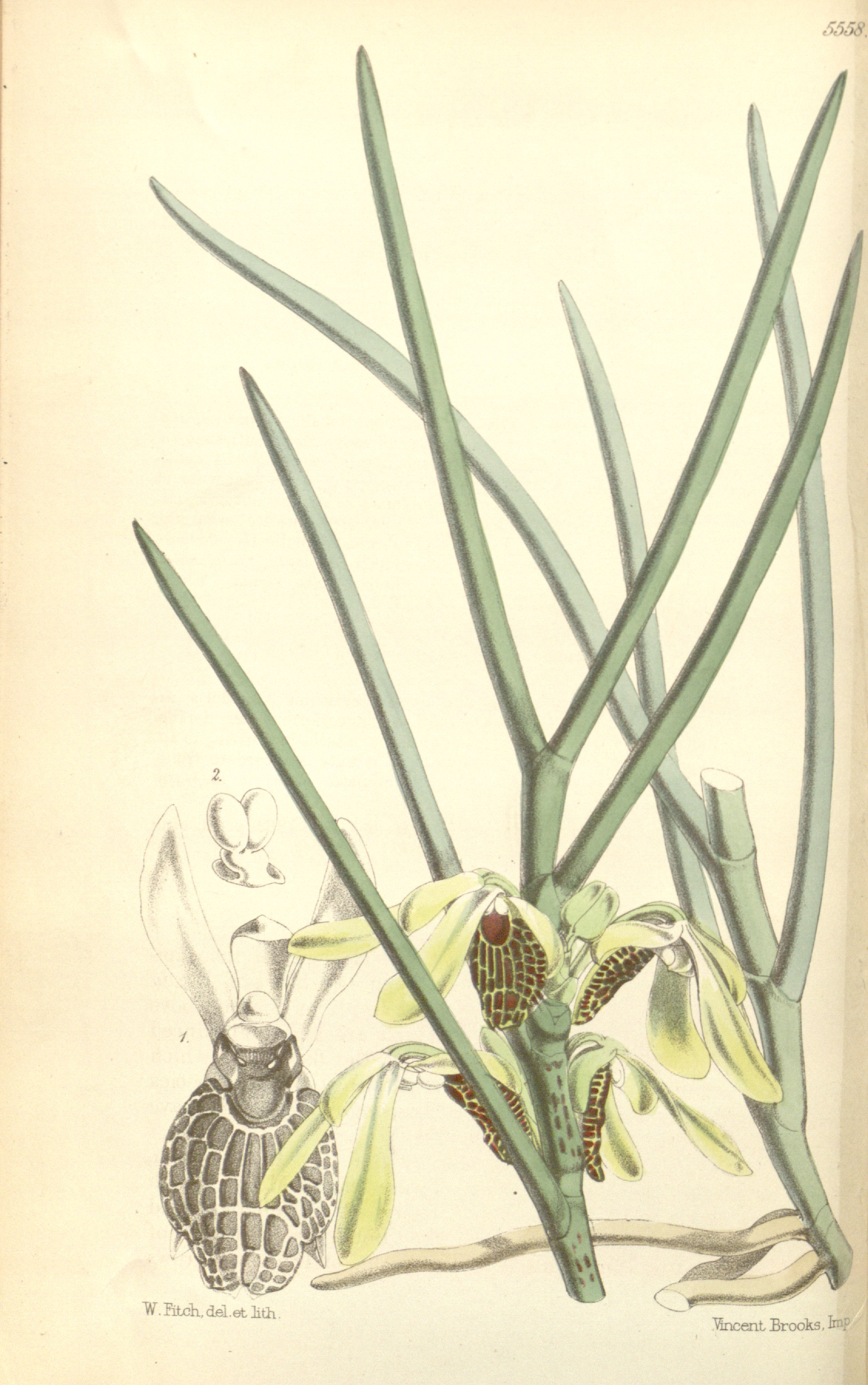 Illustration of Luisia psyche